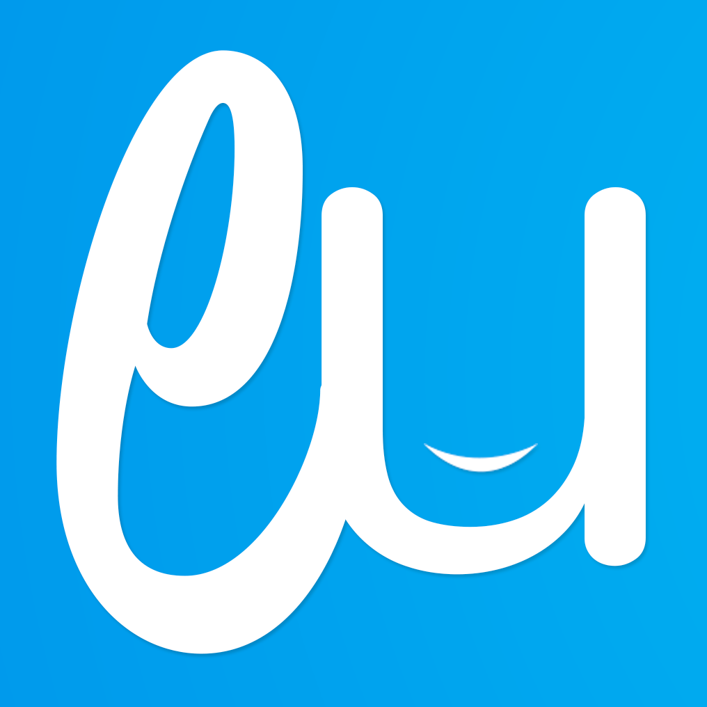 Eurasmus minimalized logo